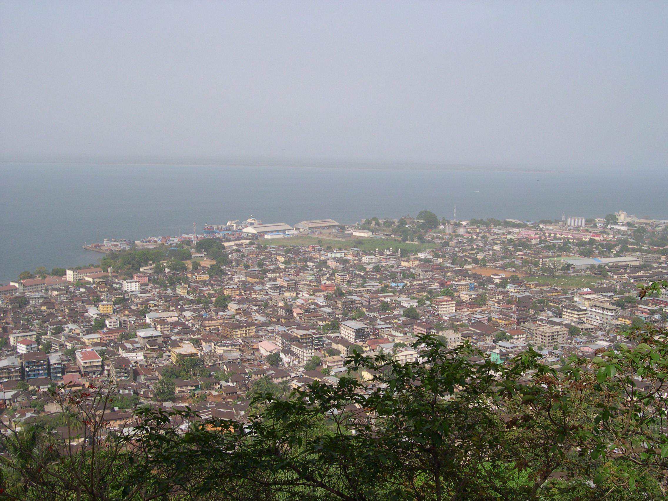 Freetown from Fourah Bay College